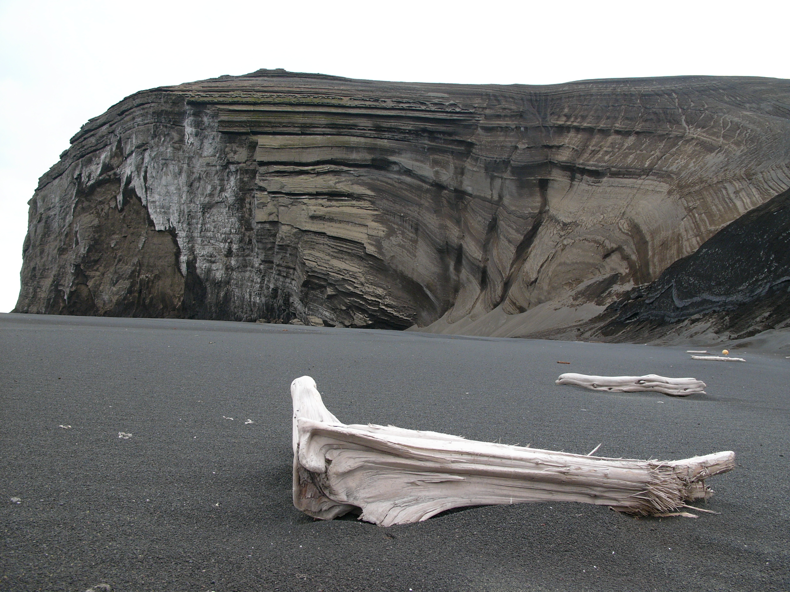 Egg-oeja, a peninsula on the coast of Jan Mayen (Norwegian volcanic island in the Arctic Ocean); consists of layers of volcanic ash. The beach is covered with driftwood from Siberia.